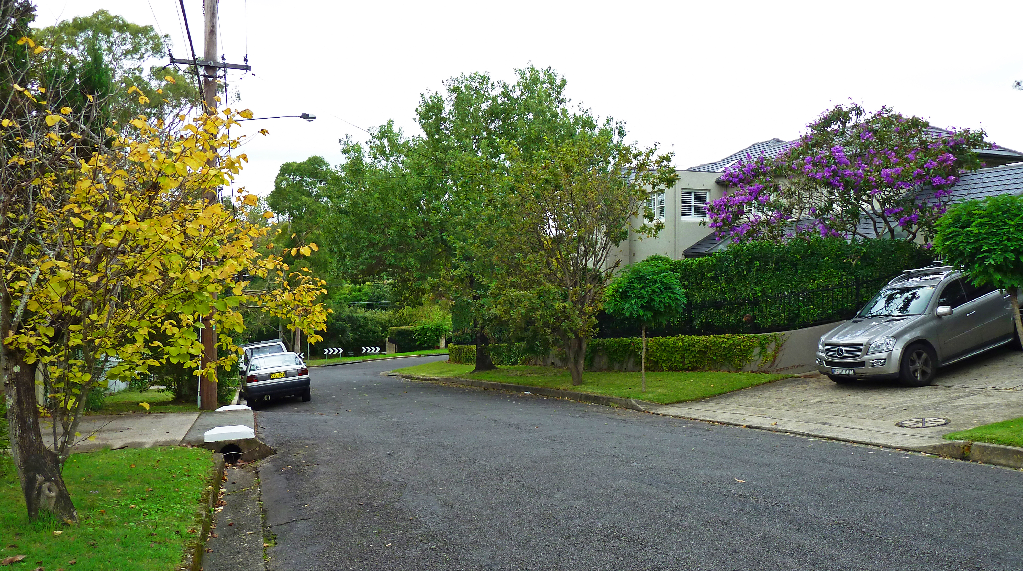 Rosetta Avenue, Killara, New South Wales, Australia.